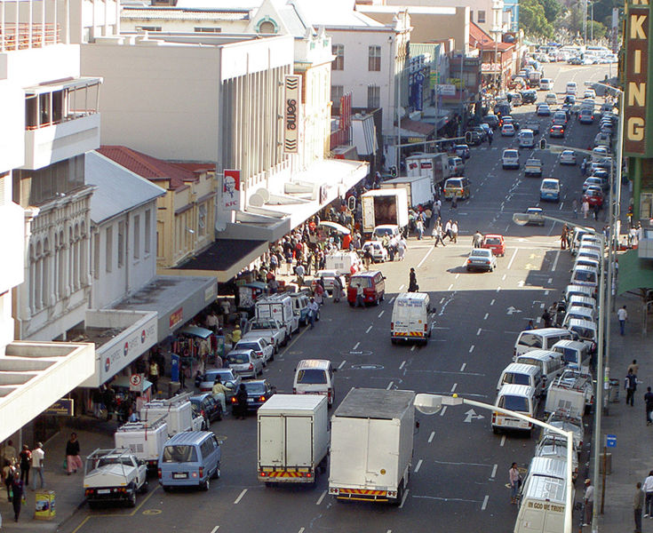 Commercial Street in downtown Durban